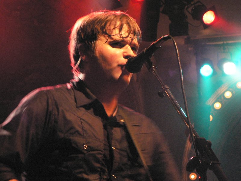 Ben Gibbard of Death Cab for Cutie performing at the Street Scene music festival in San Diego.